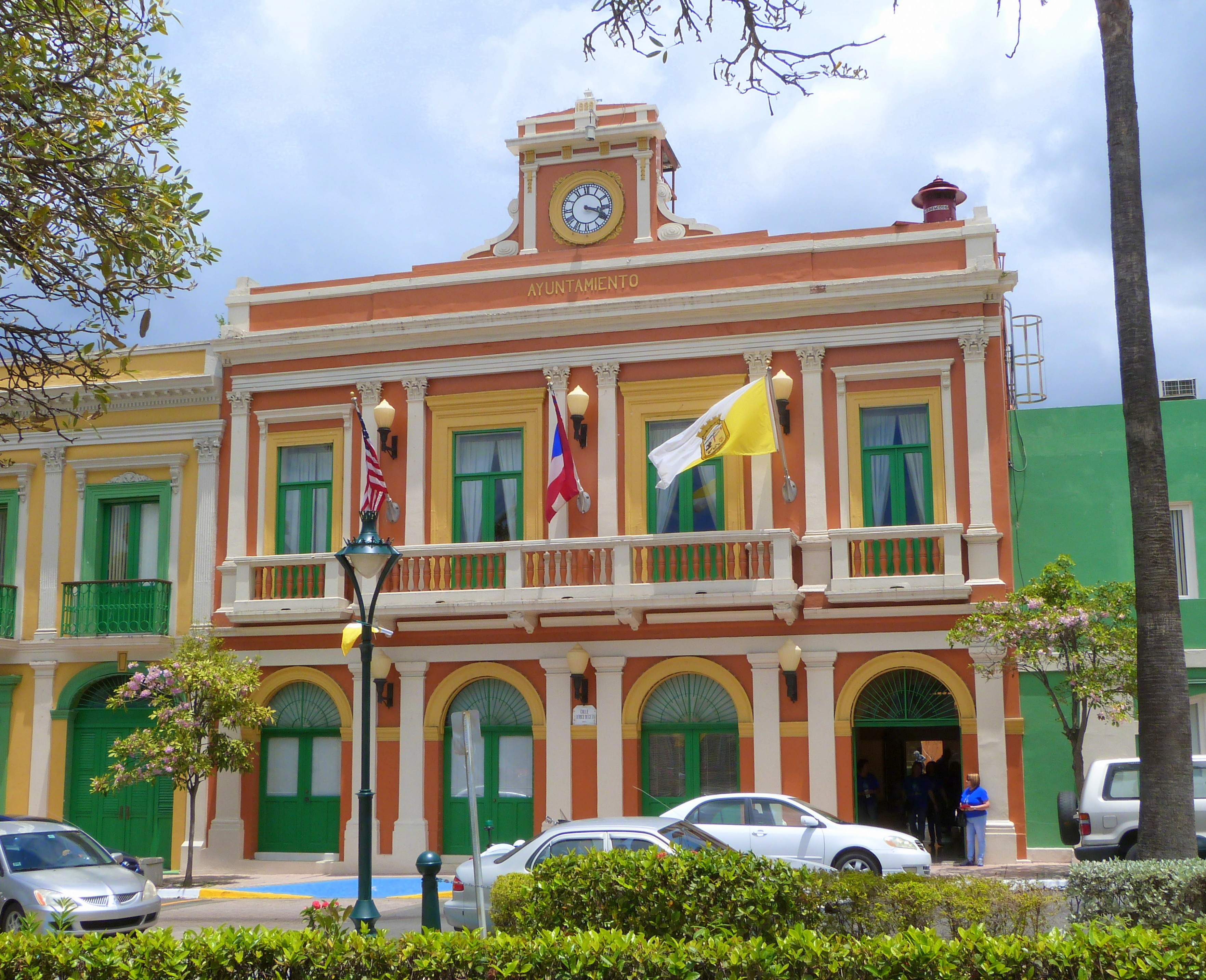 The town hall, facing the plaza in Juana Díaz, Puerto Rico.